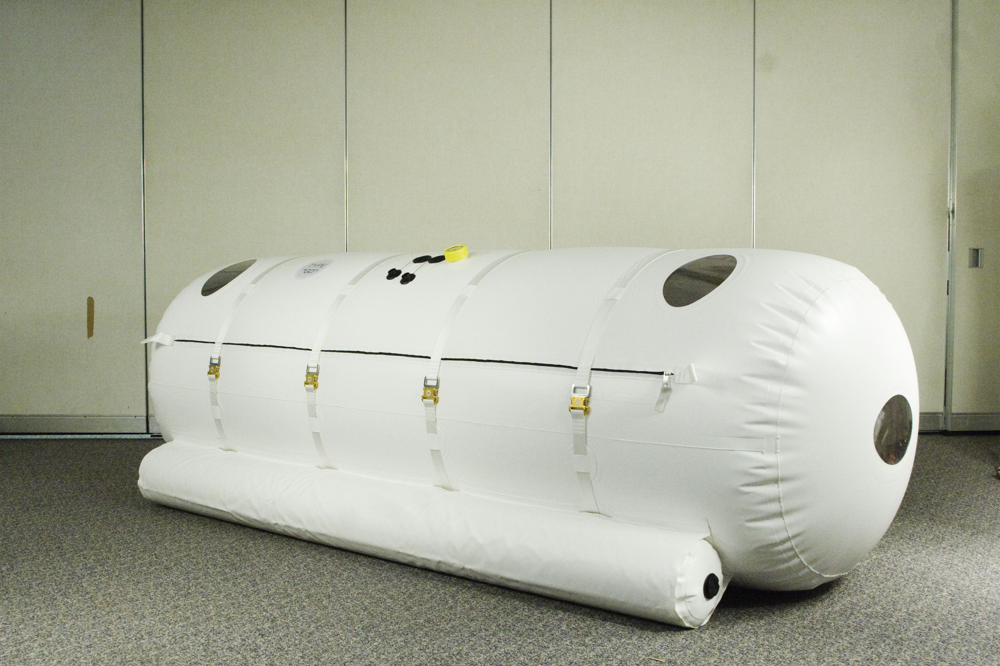 An external photo of a 40" hyperbaric chamber. Bruce McKeeman author. We own full rights to this photo